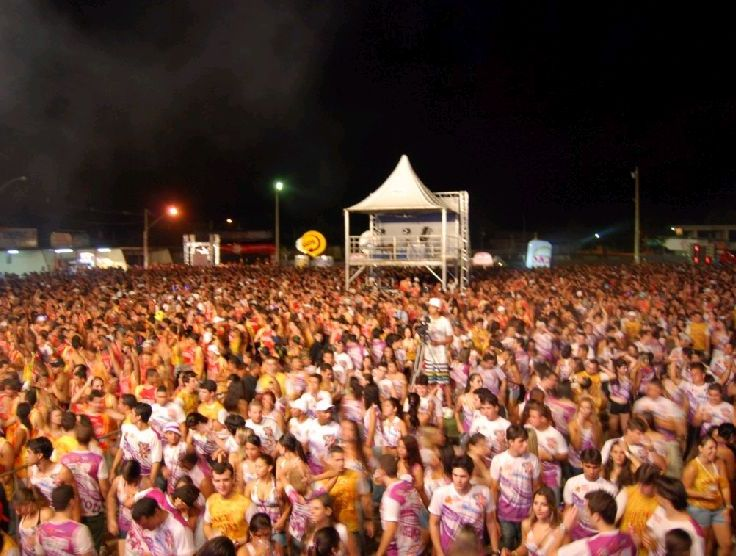 GV Folia 2010, Governador Valadares, Minas Gerais, Brazil.